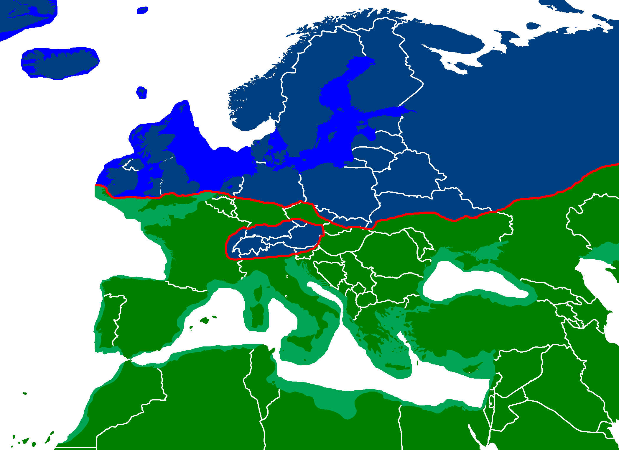 A map of the extent of Ice Caps and now submerged land during the Last Glacial Maximum in Europe